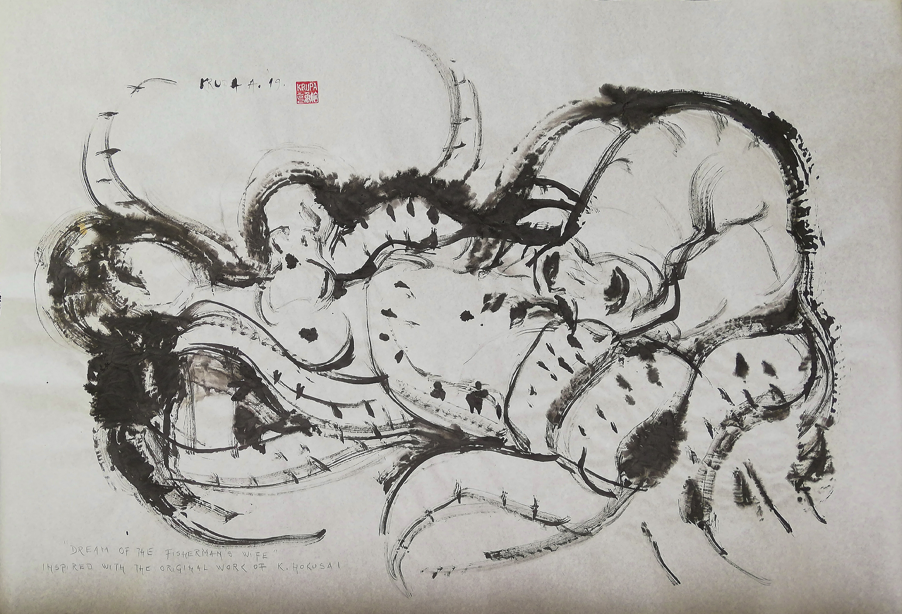 Style: Sumi-e (Suiboku-ga), Fantasy Art Genre: nude painting (nu), calligraphy Media: ink, feather, japanese paper Dimensions: 69 x 99 cm